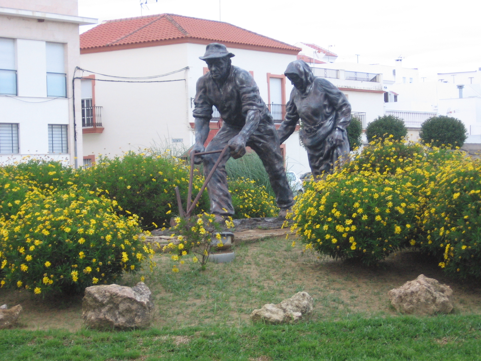 Monumento al agricultor, Lepe